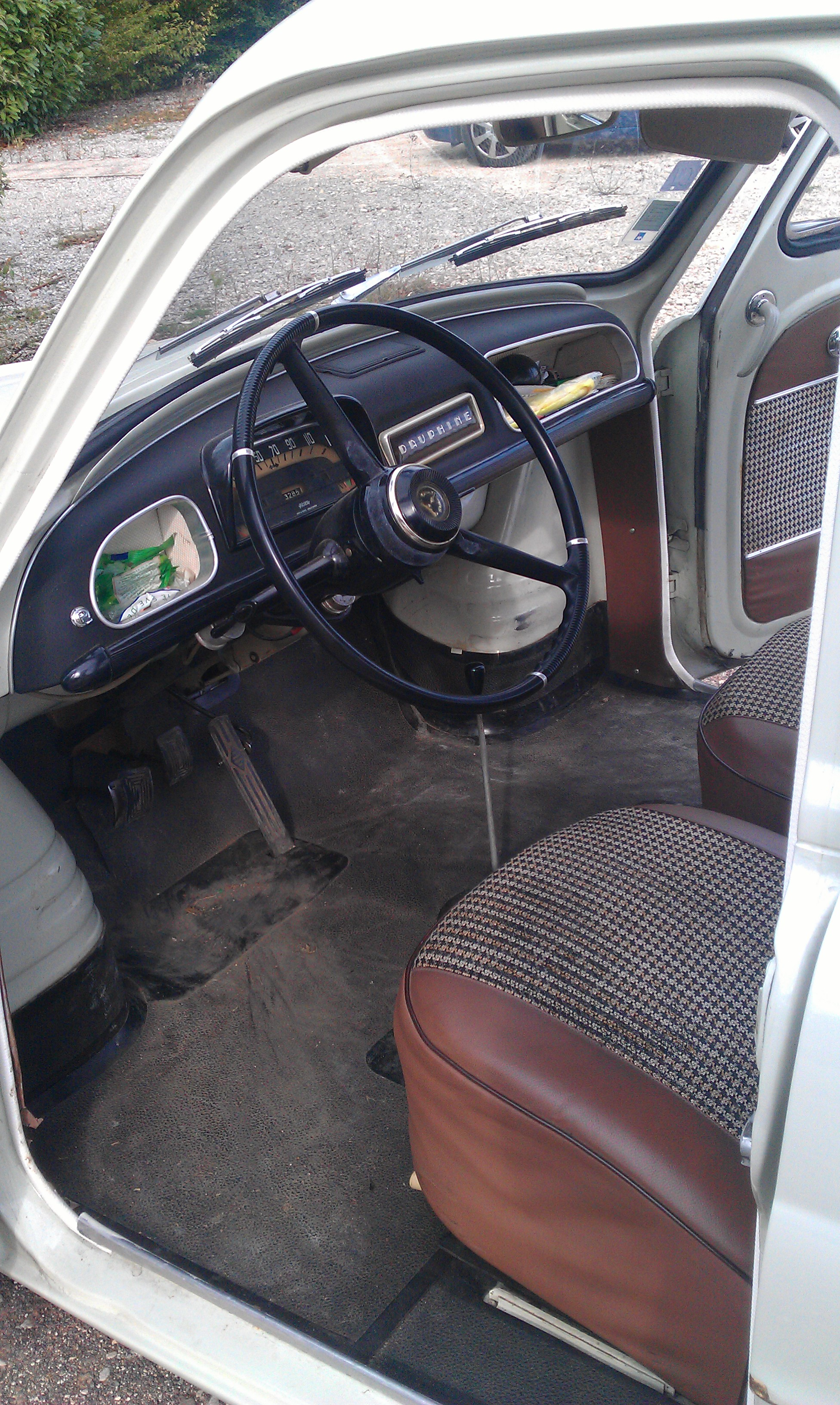 Interior of a Renault Dauphine